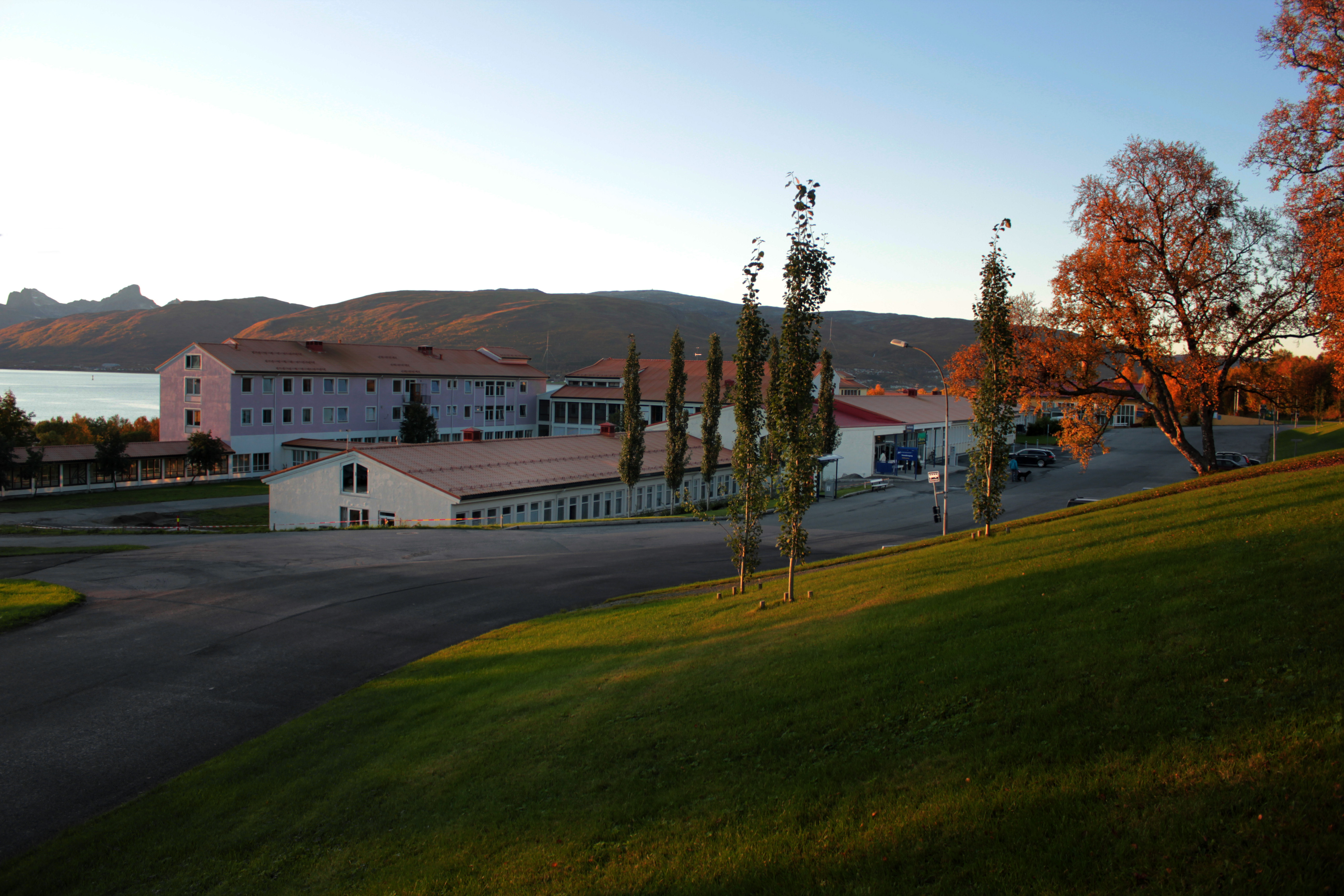 Åsgård mental hospital Tromsø, Norway. Now a part of University hospital Northern Norway